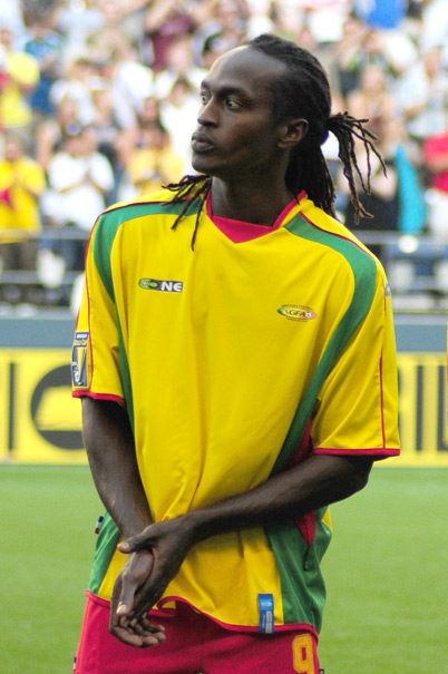 Photo of soccer player, Ricky Charles. Wilson Wong photo.